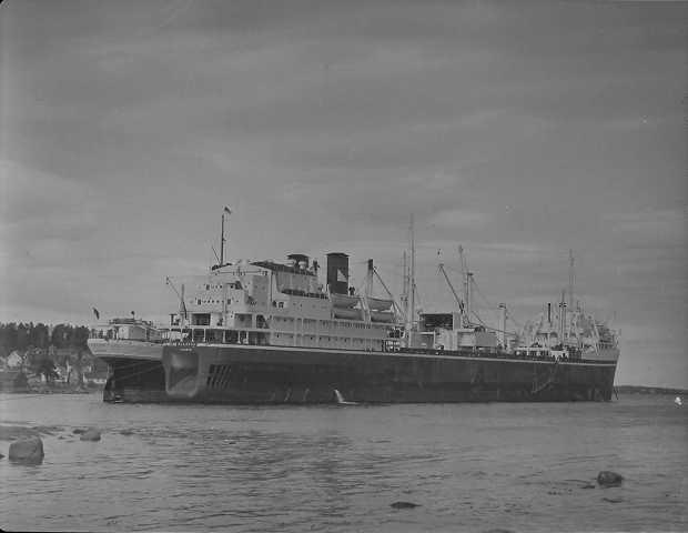 British whaling factory Balaena was British built and owned and run by the Hector Whaling Company. The majority of crew were Norwegian but included around 50 British crew members